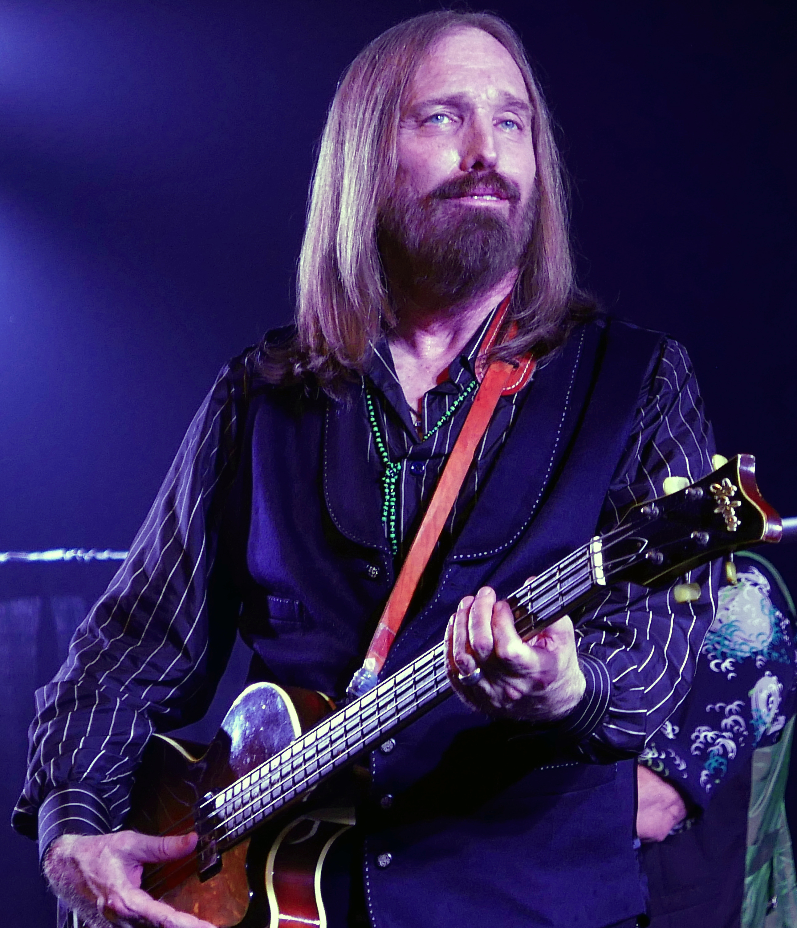 Tom Petty, performing with Mudcrutch, at the Fillmore, San Francisco, on June 20th, 2016 playing a Höfner 500/2 bass.